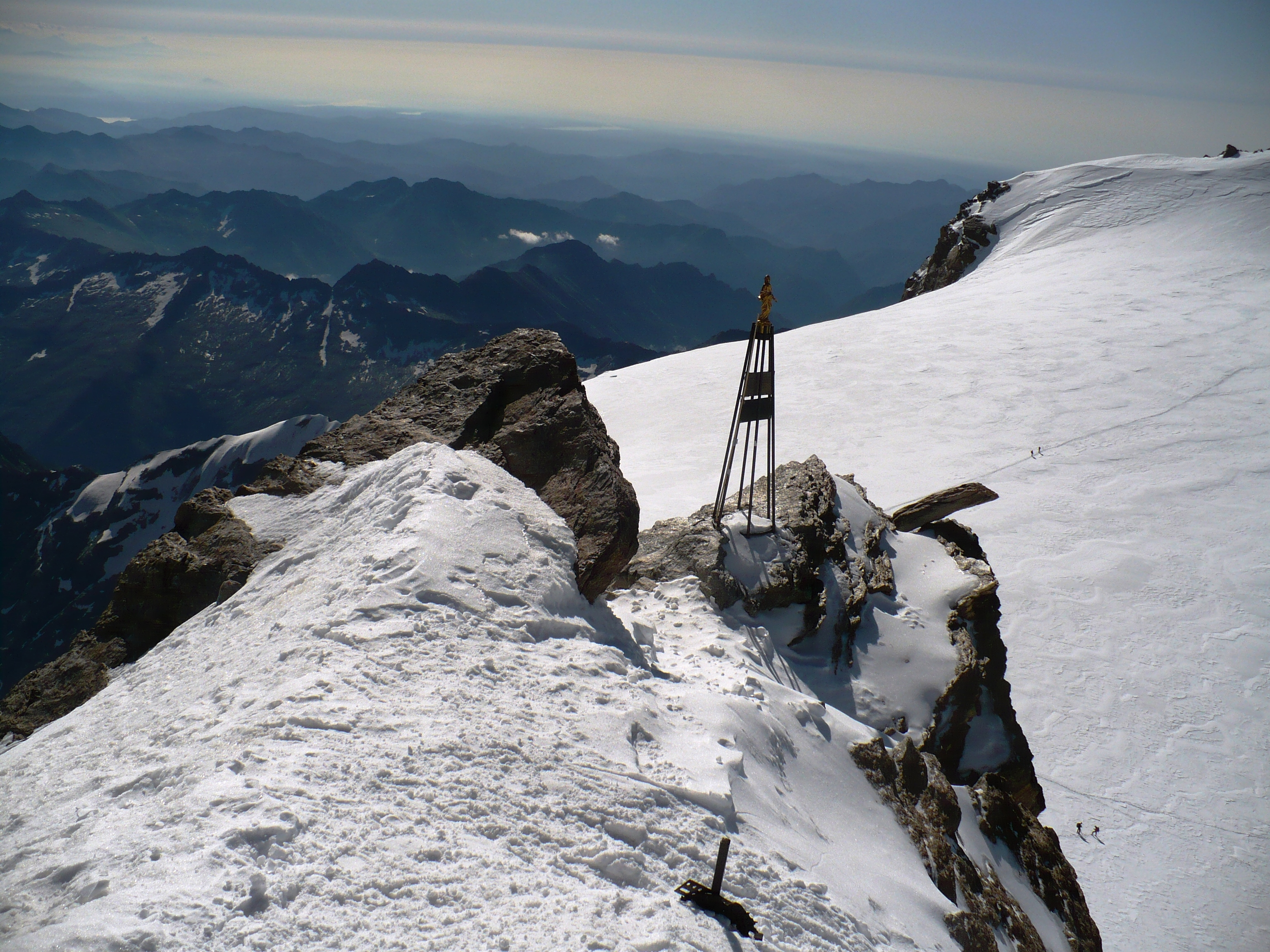 Top of Zumsteinspitze